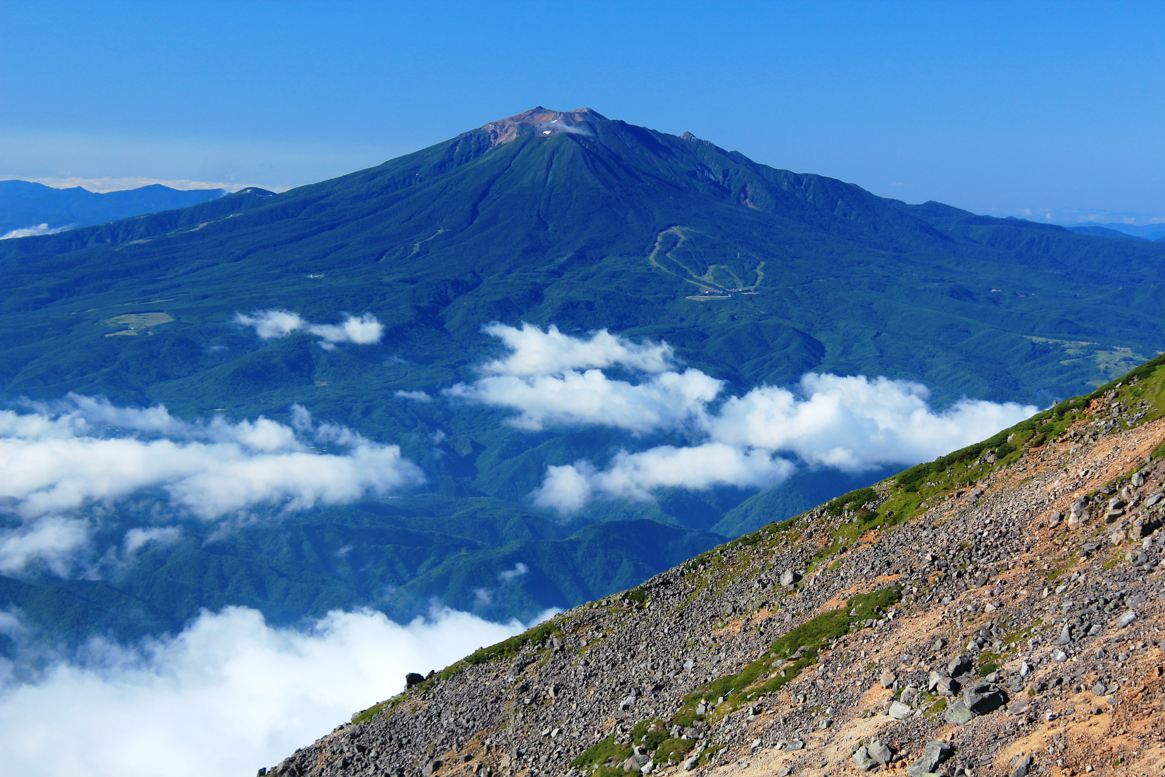 Mount Ontake seen from Mount Norikura, in Hida Mountains, Nagano pref. and Gifu pref., Japan.